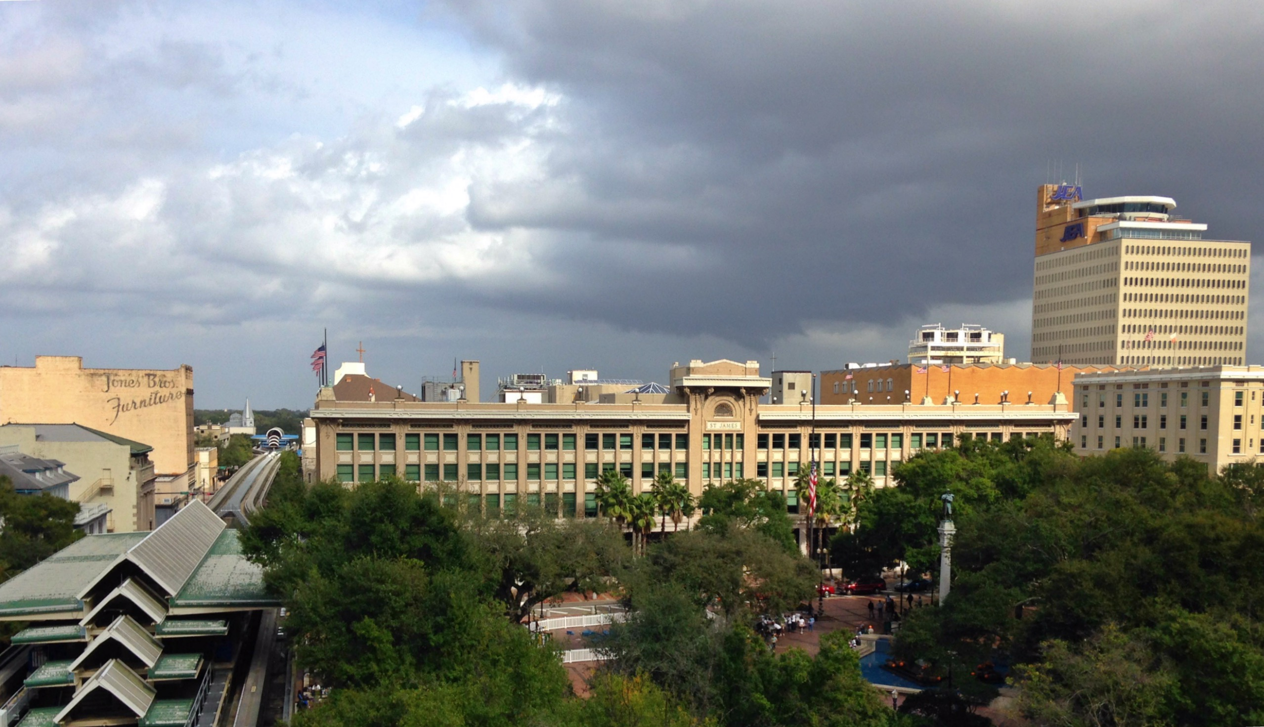 St. James Building, with view of Hemming Park. Jacksonville, FL